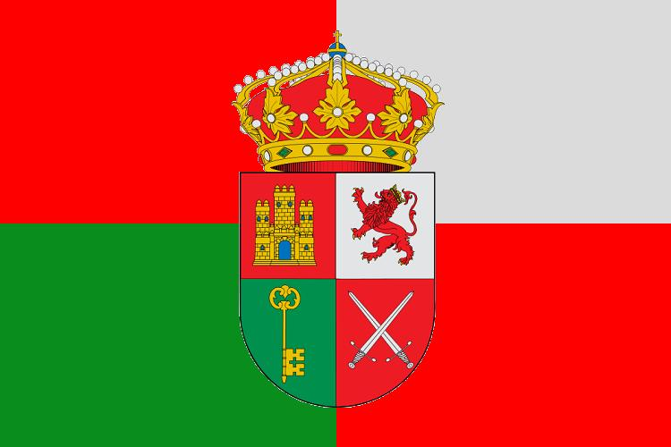 Bandera de Los Villares